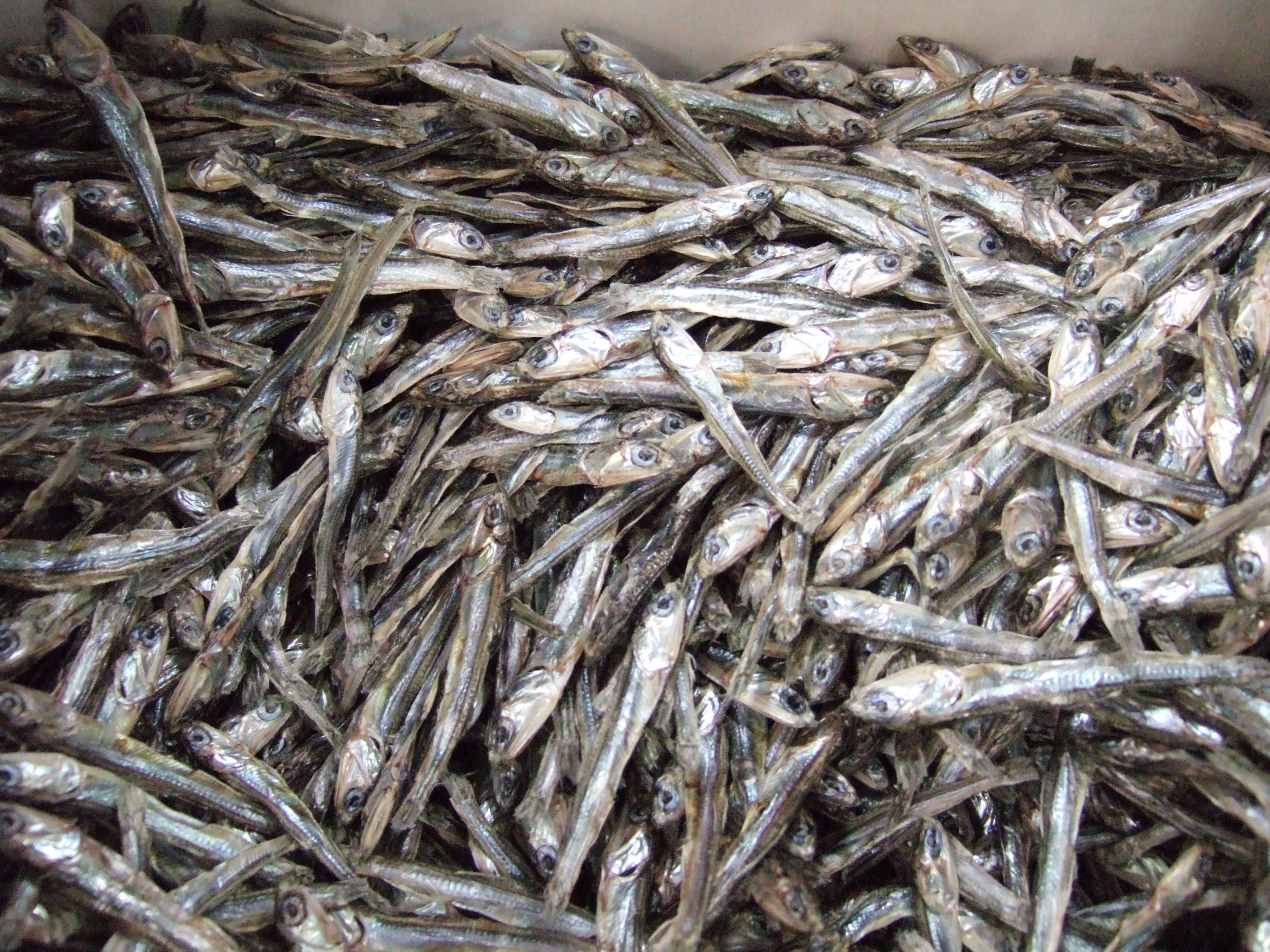 市場の田作 Tazukuri, dried Japanese Anchovy (Engraulis japonica) at the market.